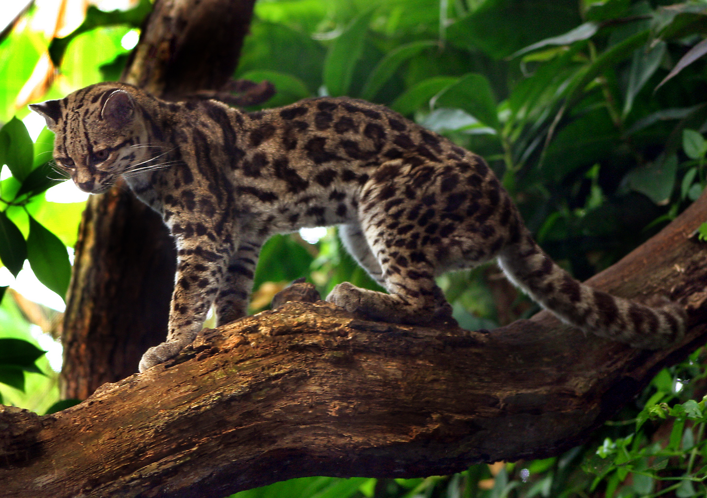 Margay cat (Leopardus wiedii)